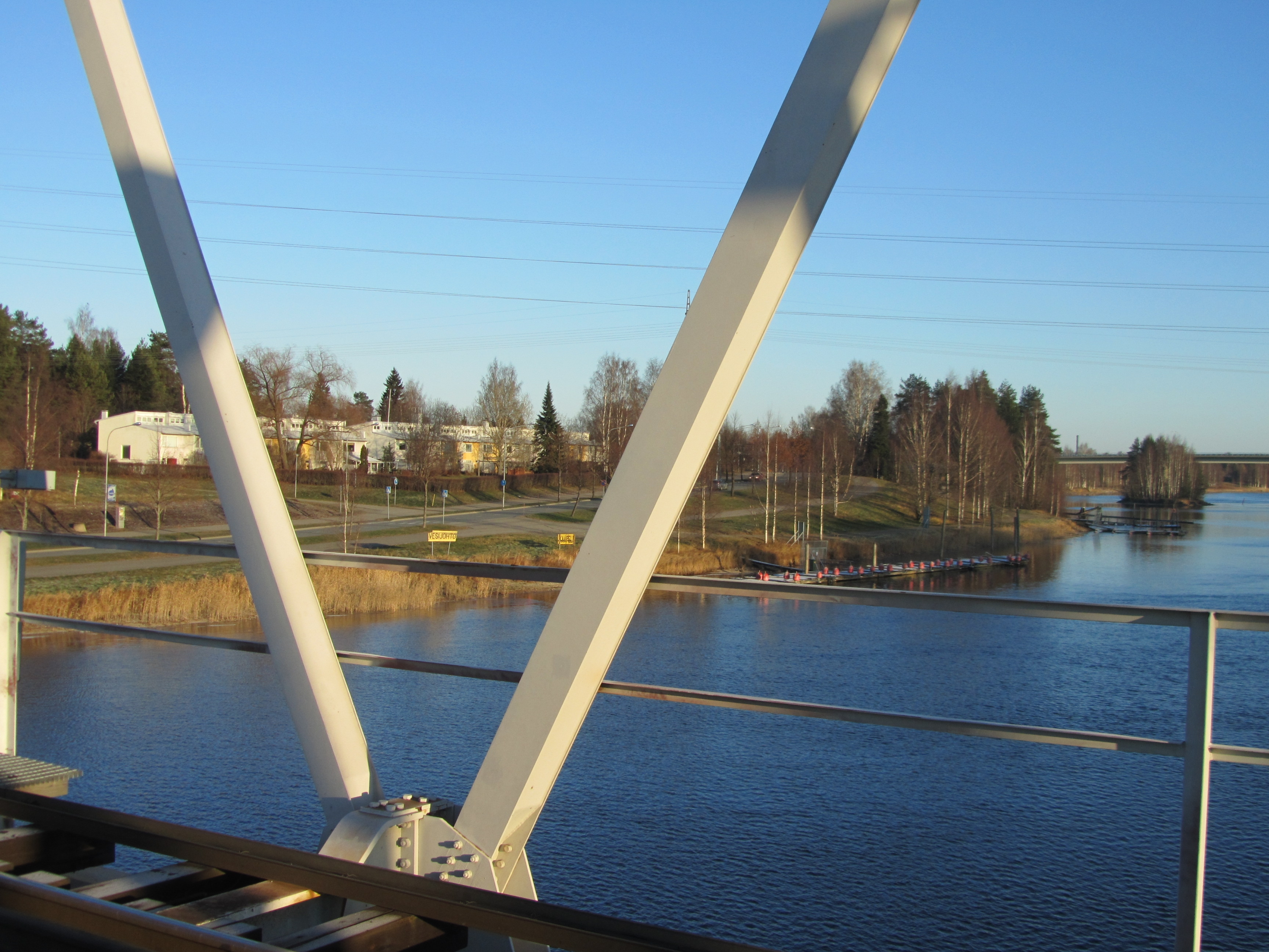 Siihtala, railwaybridge, river Pielisjoki, Joensuu